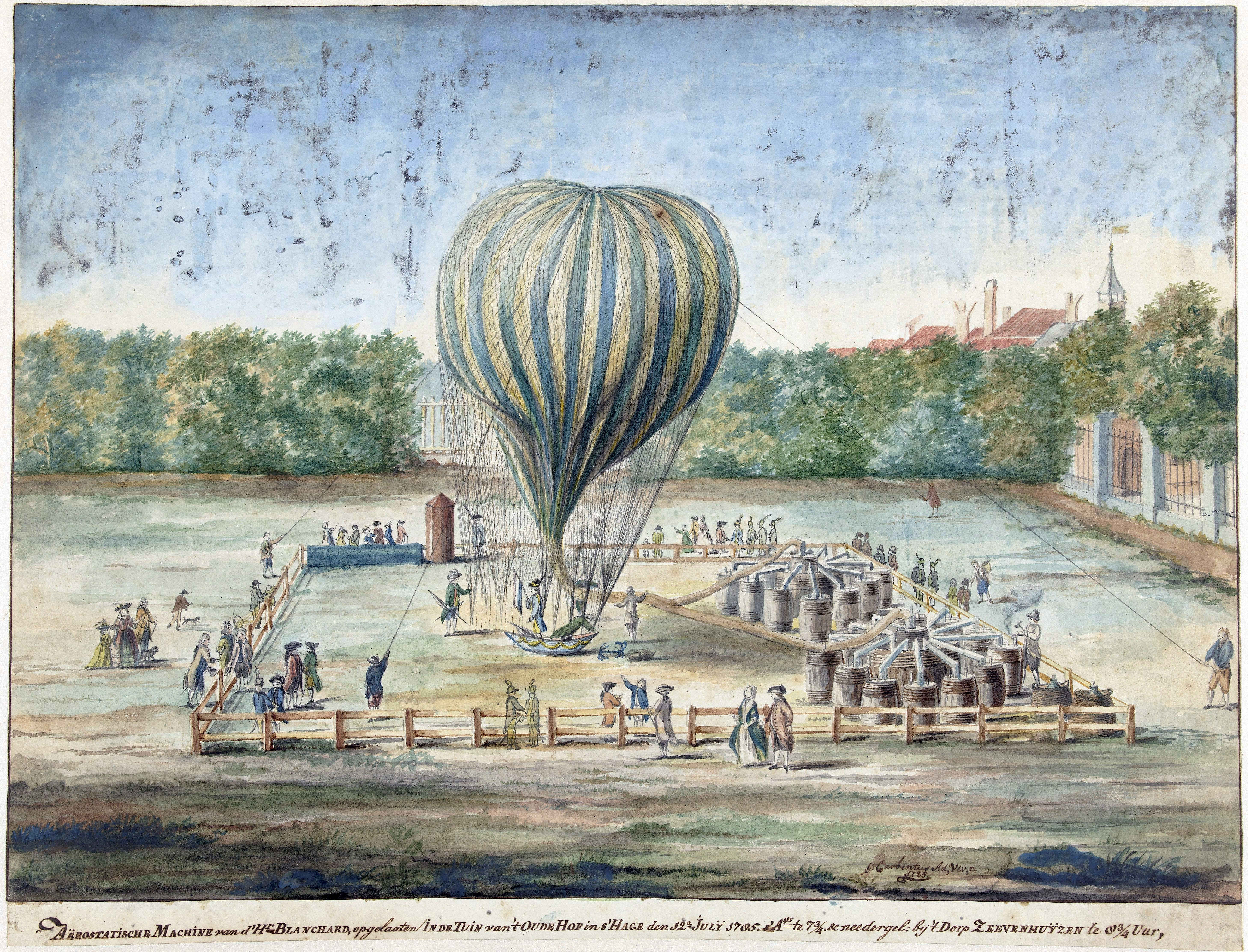 The ascent of the gas-balloon by Frenchman Jean-Pierre Blanchard in the Palace garden at Noordeinde Palace in The Hague (the Netherlands), on July 12, 1785. The balloon landed in the village Zevenhuizen. The balloon is being inflated within a demarcation around which a crowd gathered. Ascension of the first manned balloon in the Netherlands.